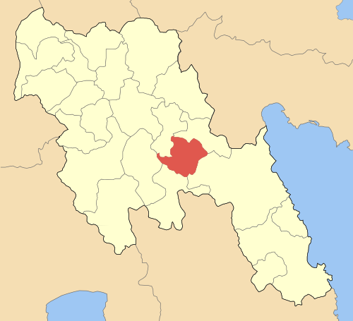 Locator map of Tegeas municipality (Δήμος Τεγέας) at Arcadia perfecture, Peloponnissos, Greece.